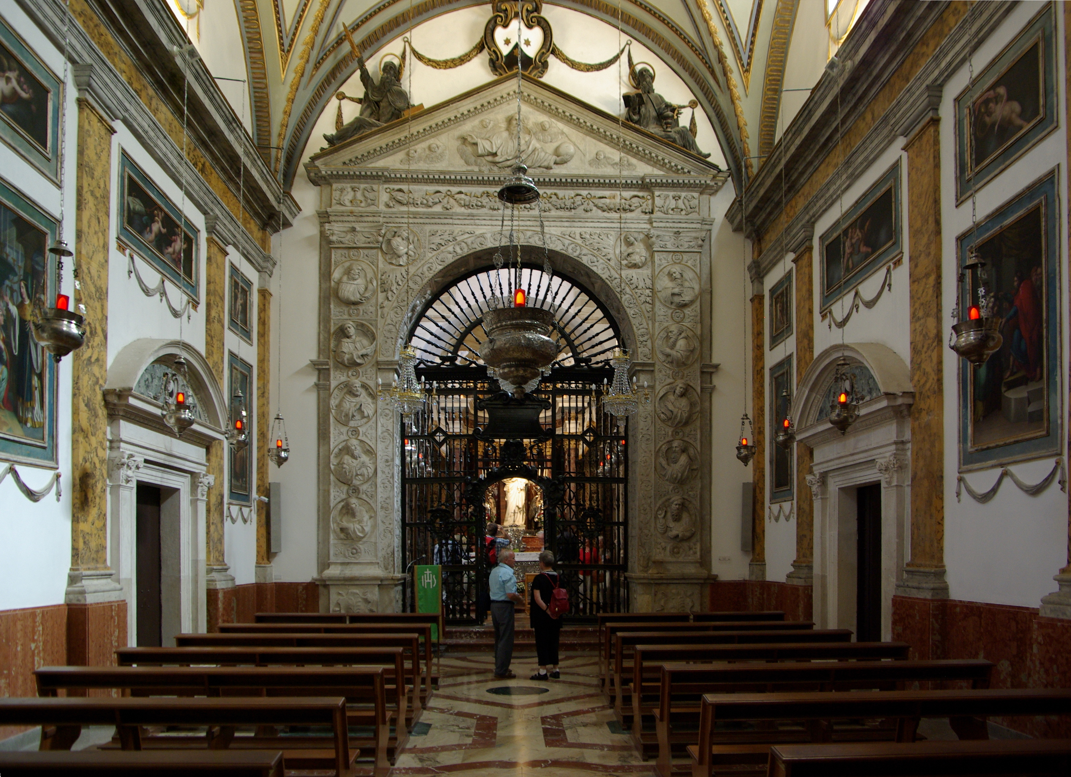 Italy, Sicily, Trapani, Basilica-santuario di Maria Santissima Annunziata